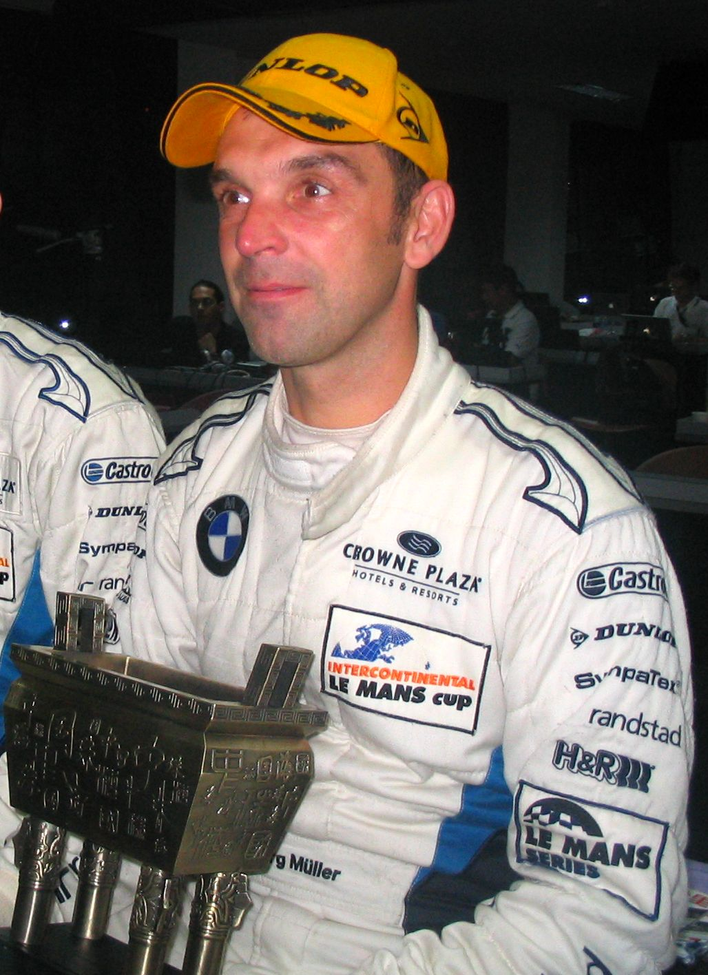 Jorg Muller with the Intercontinental Le Mans Cup - 1000km of Zhuhai GT2 winners' trophy at Zhuhai International Circuit 2010.